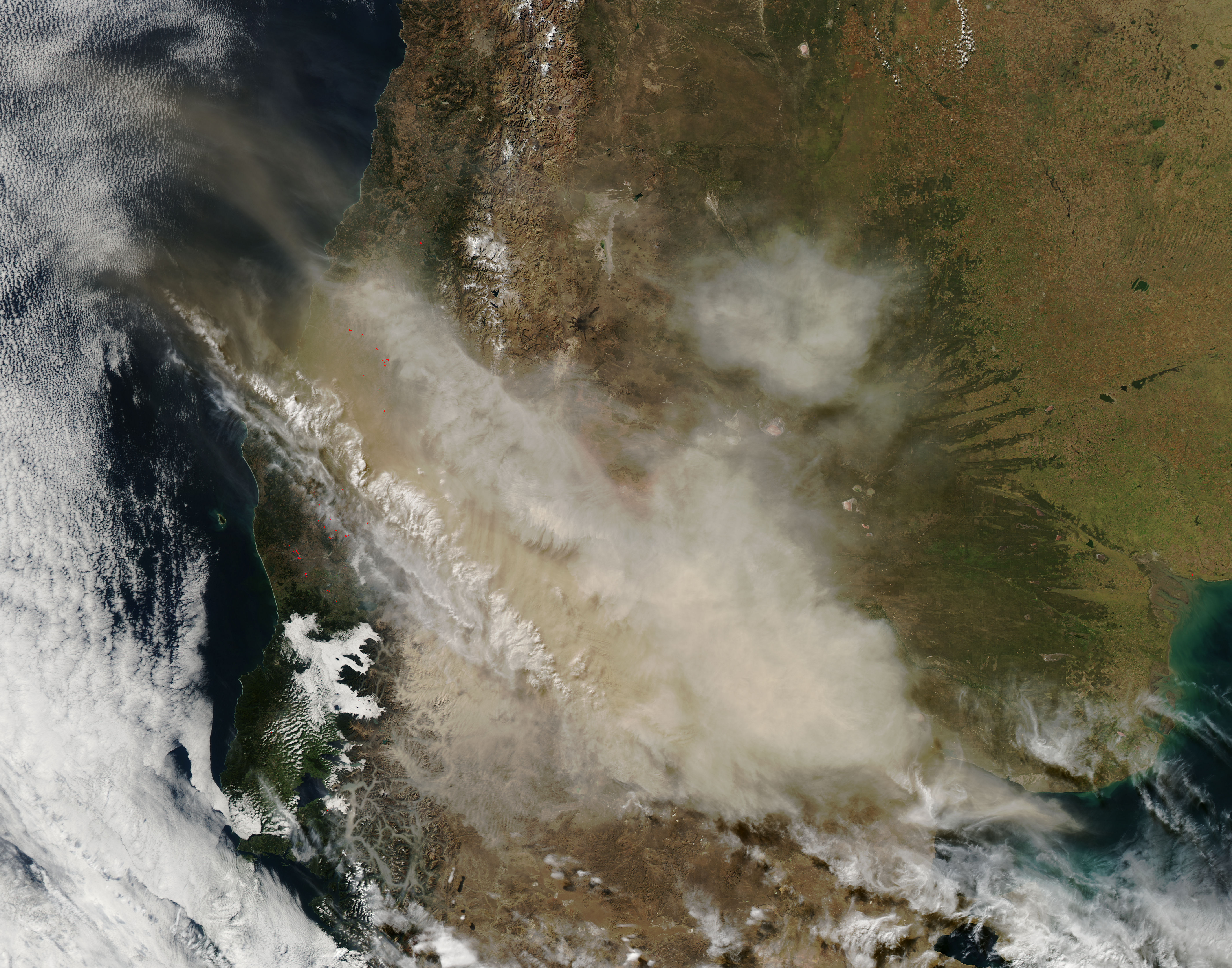 On April 22, 2015, Calbuco volcano in southern Chile began erupting for the first time since 1972. An ash cloud rose at least 15 kilometers (50,000 feet) above the volcano, menacing the nearby communities of Puerto Montt (Chile) and San Carlos de Bariloche (Argentina). The eruption led the Chilean Emergency Management Agency and the Chilean Geology and Mining Service (SERNAGEOMIN) to order evacuations within a 20-kilometer (12 mile) radius around the volcano. About 1,500 to 2,000 people were evacuated; no casualties have been reported so far. The volcanic mountain was quiet until tremors began late in the afternoon on April 22. An explosive pyroclastic eruption started at 6:04 p.m. local time (2104 Universal Time) and vigorously spewed ash and pumice for at least 90 minutes. Lava flows were observed from the main vent. A second high-energy pulse of ash occurred around 1 a.m. on April 23, according to SERNAGEOMIN. At 3:35 p.m. local time (1835 Universal Time), the MODIS instrument on NASA’s Aqua satellite acquired a second view as the tan plume continued moving north and east. References Eruptions Blog by Erik Klemetti, via Wired (2015, April 22) Chile’s Calbuco Unleashes Dramatic Explosive Eruption. Accessed April 23, 2015. The Guardian (2015, April 22) Chile’s Calbuco volcano erupts. Accessed April 23, 2015. Mashable (2015, April 23) Erupting volcano puts on a dazzling lightning display in Chile. Accessed April 23, 2015. SERNAGEOMIN (2015, April 23) Calbuco. Accessed April 23, 2015. University of Wisconsin (2015, April 23) Gravity Waves Associated with a Volcanic Eruption. Accessed April 23, 2015. Instrument(s): Aqua - MODIS